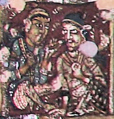 Ajanta Cave 2 ceiling foreigners group